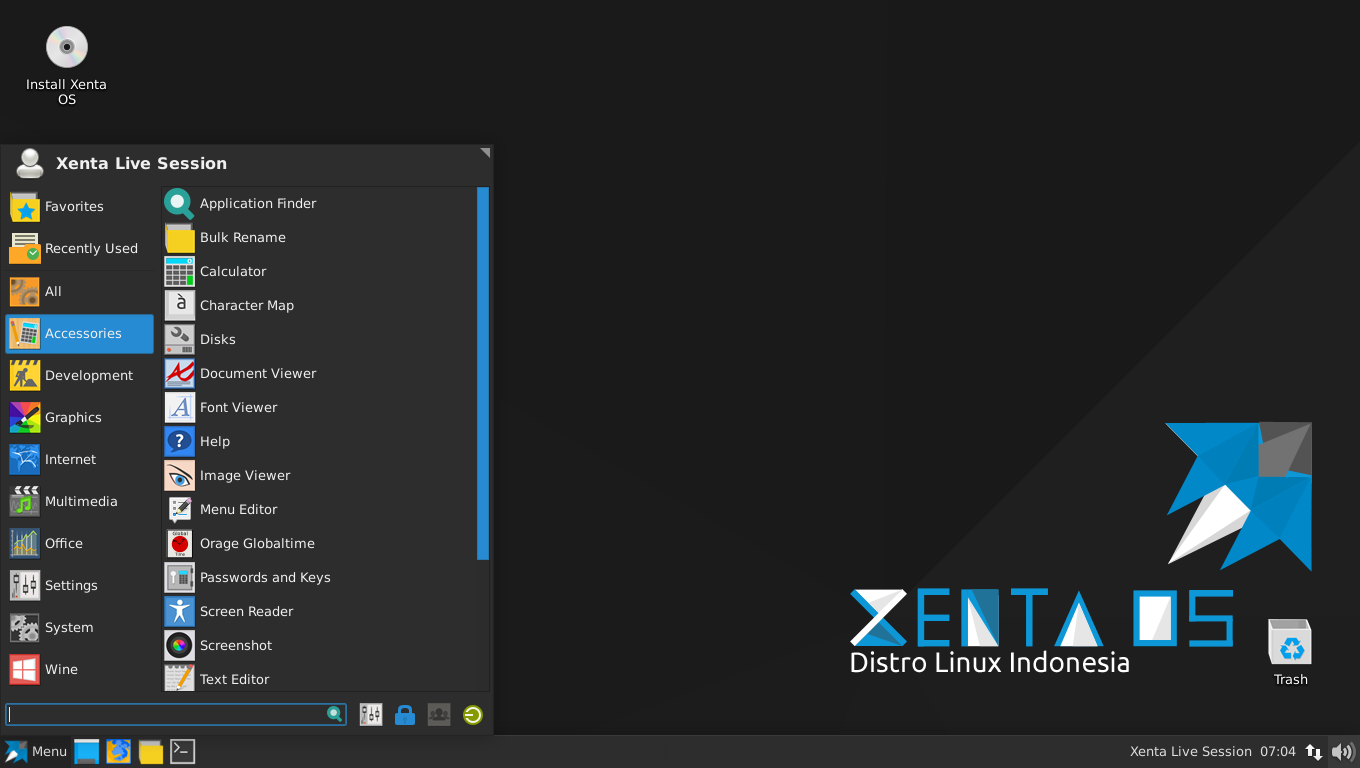 Screenshot Xenta OS XFCE Edisi